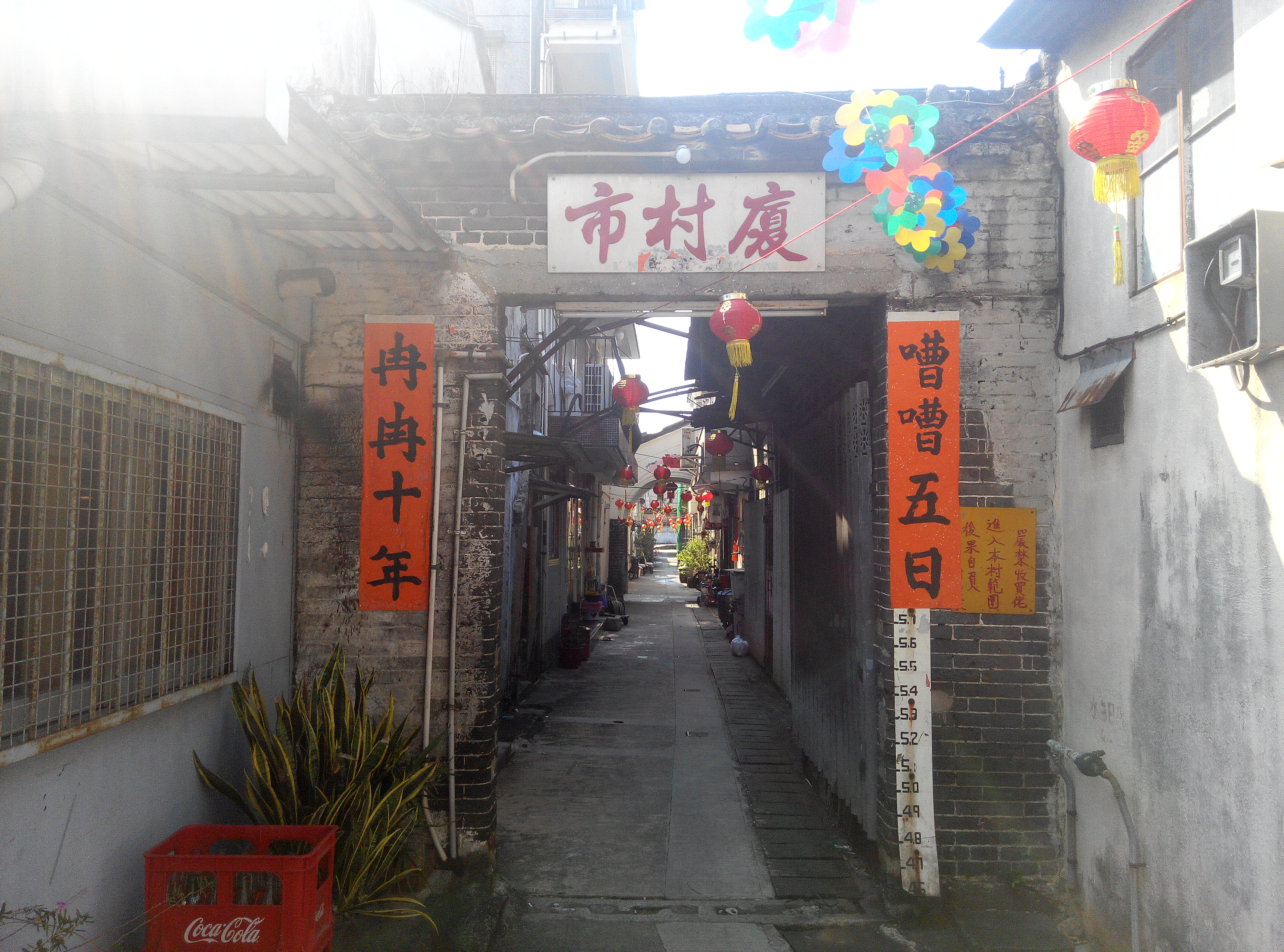 Ha Tsuen Shi